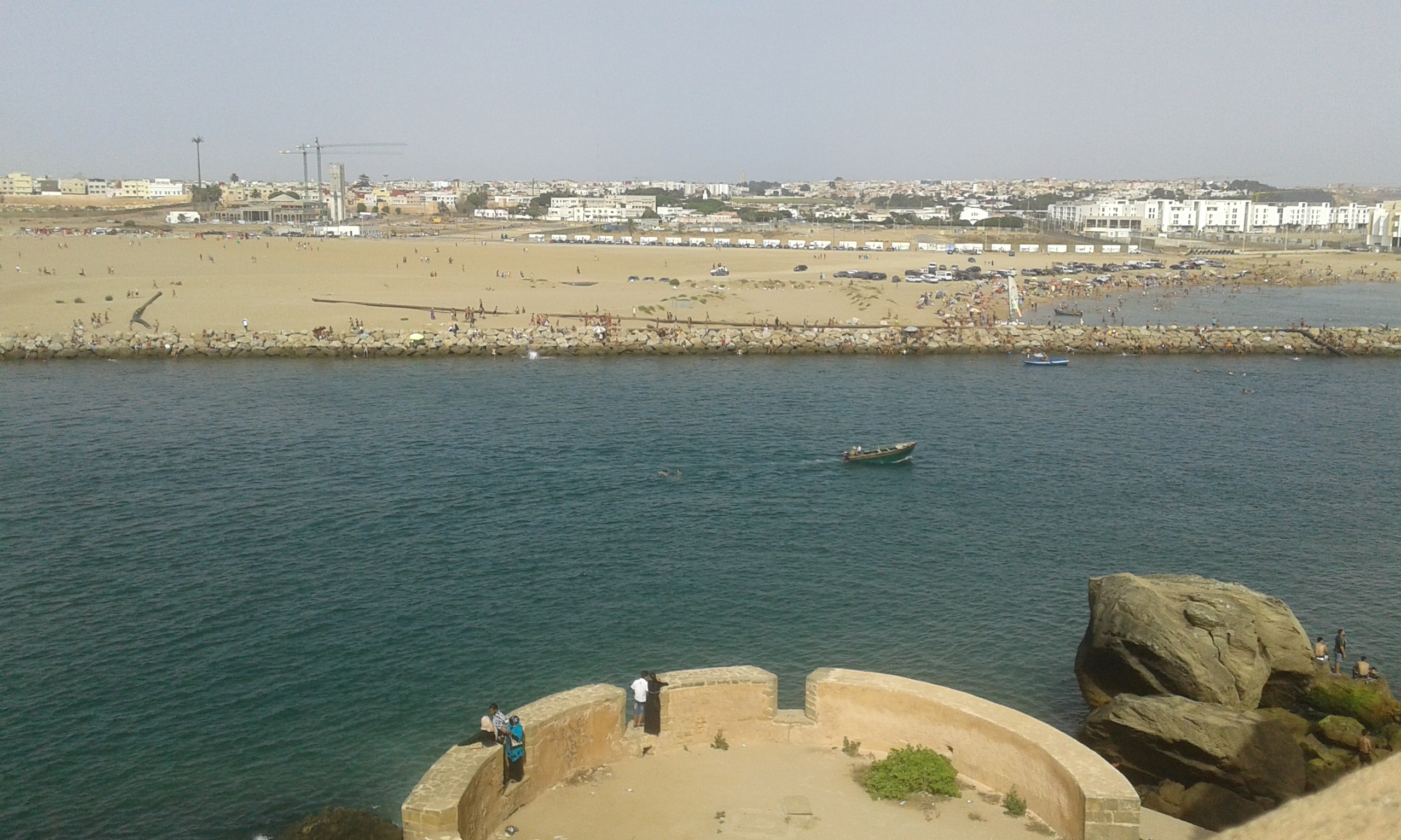 الدارجة: فلوكة فيوركًراكً This is an image with the theme "Africa on the Move or Transport" from: Morocco